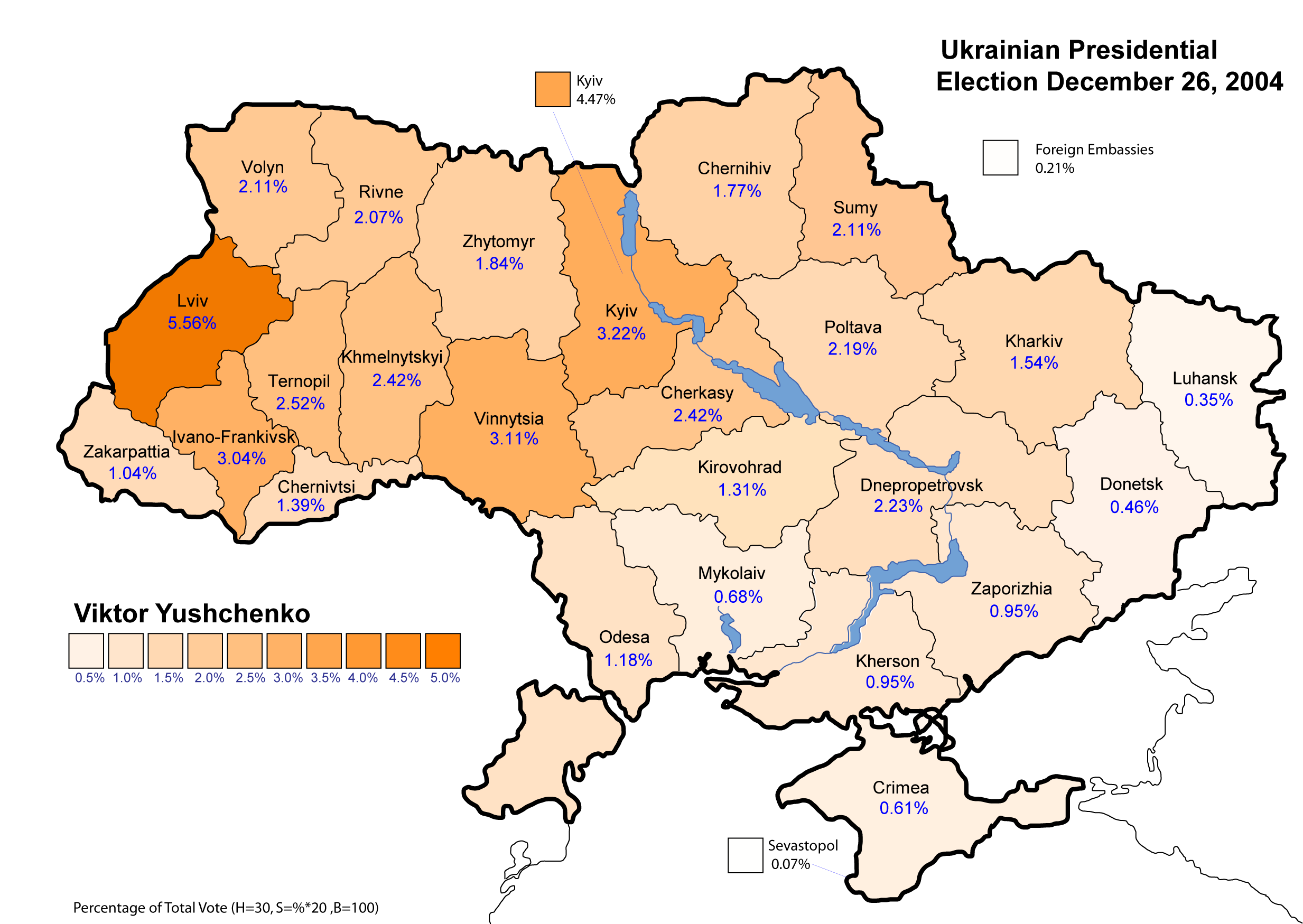 Ukrainian Presidential Election December 2004 - Yushchenko (Re-Run